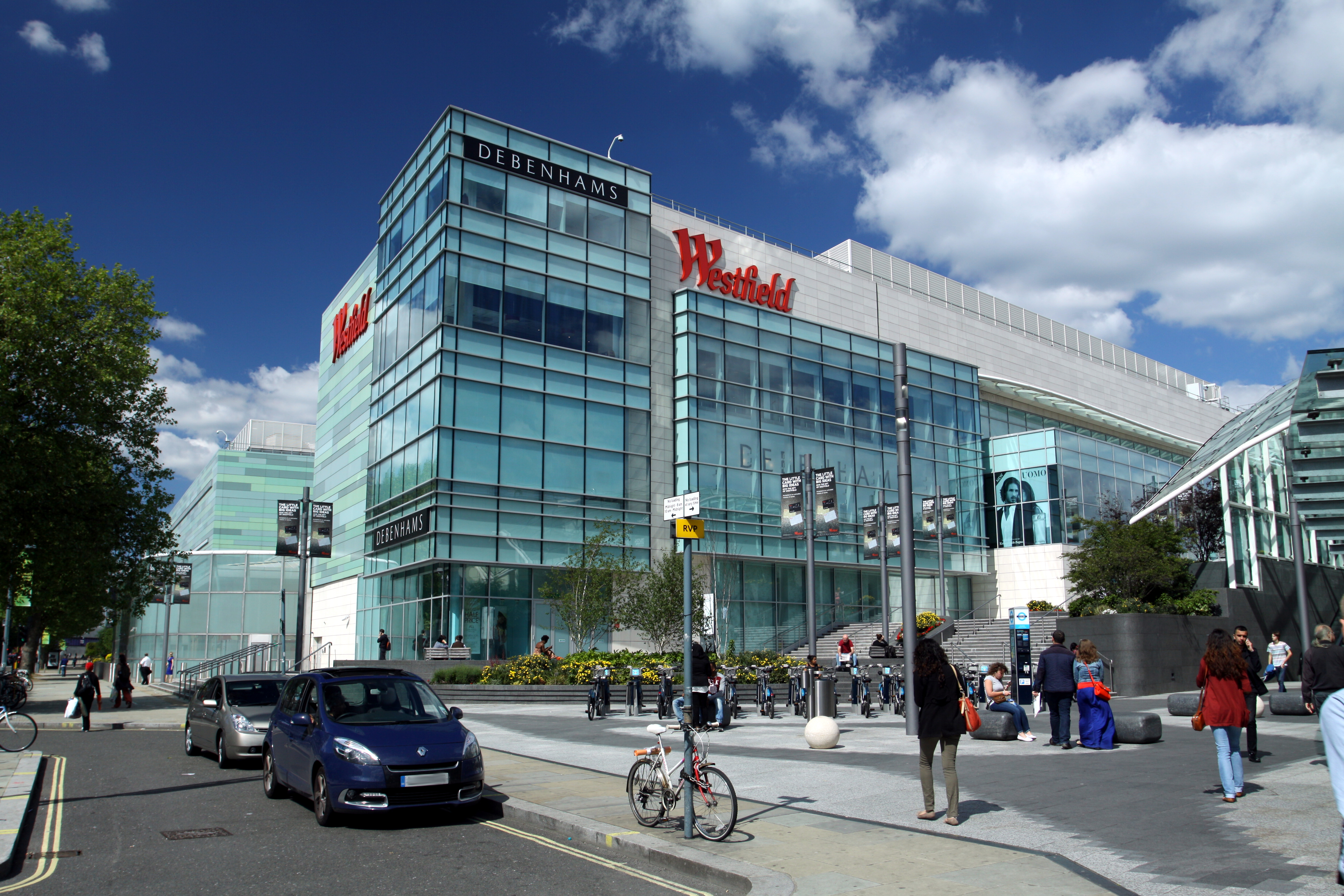 Westfield London shopping area in London Borough of Hammersmith and Fulham, London, England, Great Britain The making of this file was supported by Wikimedia UK.